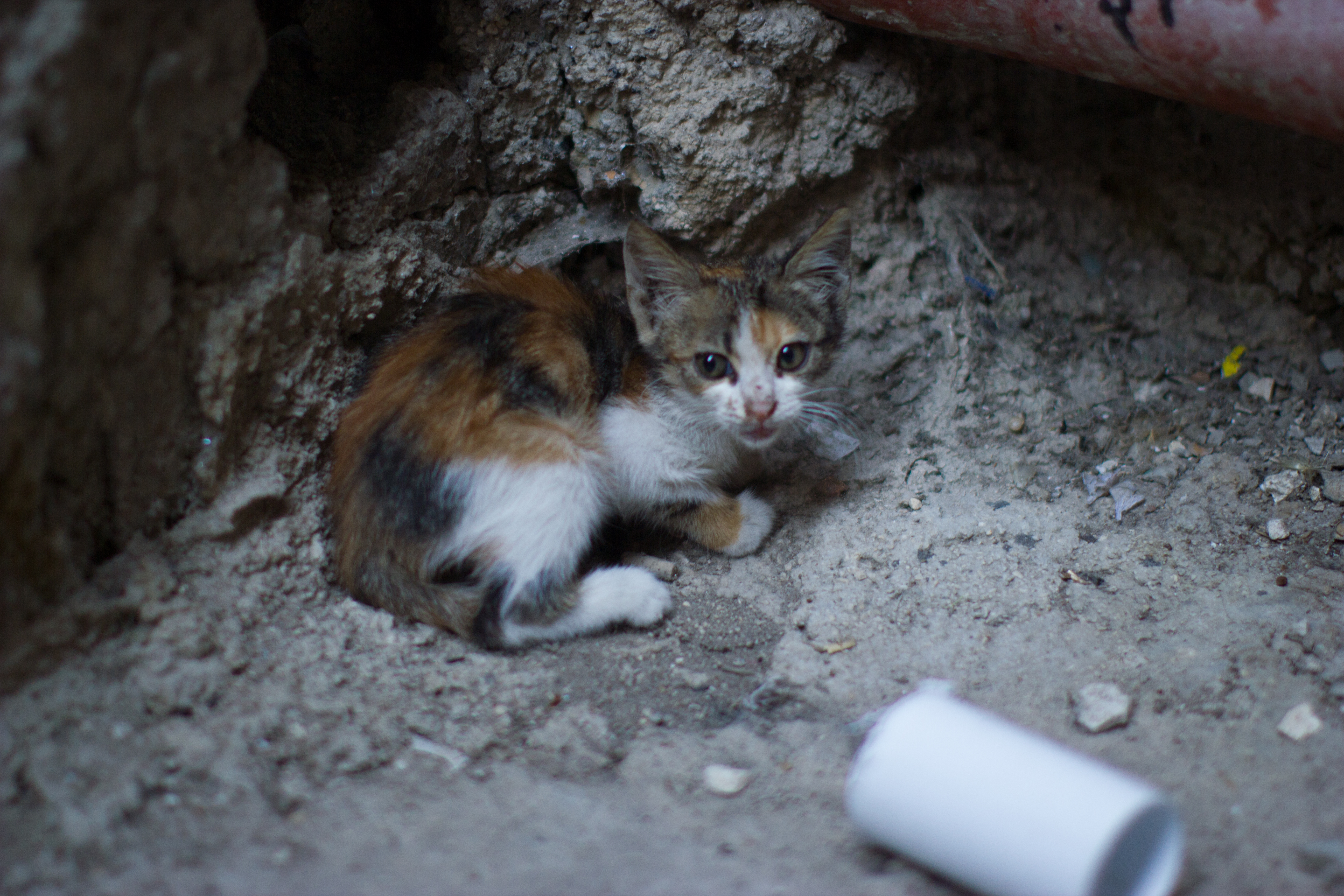 Nablus Street kitten